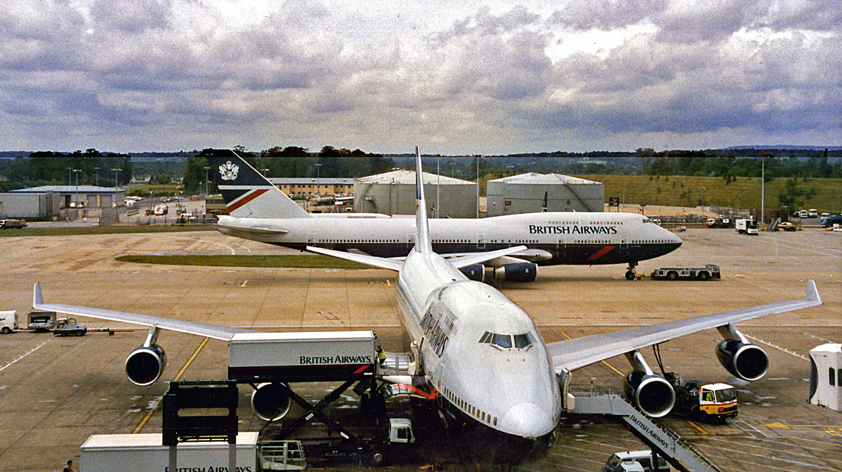 London Heathrow British Airways 747-400